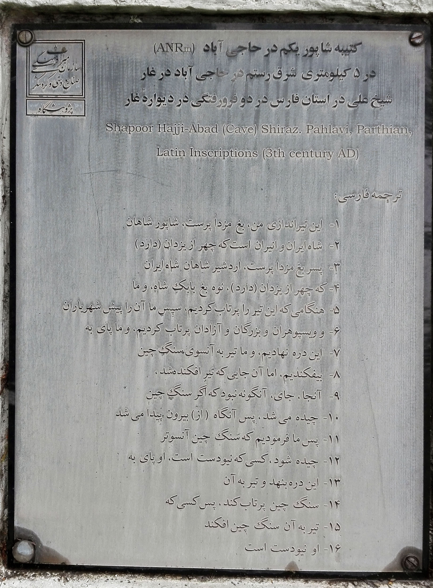 taken in inscription garden, Tehran